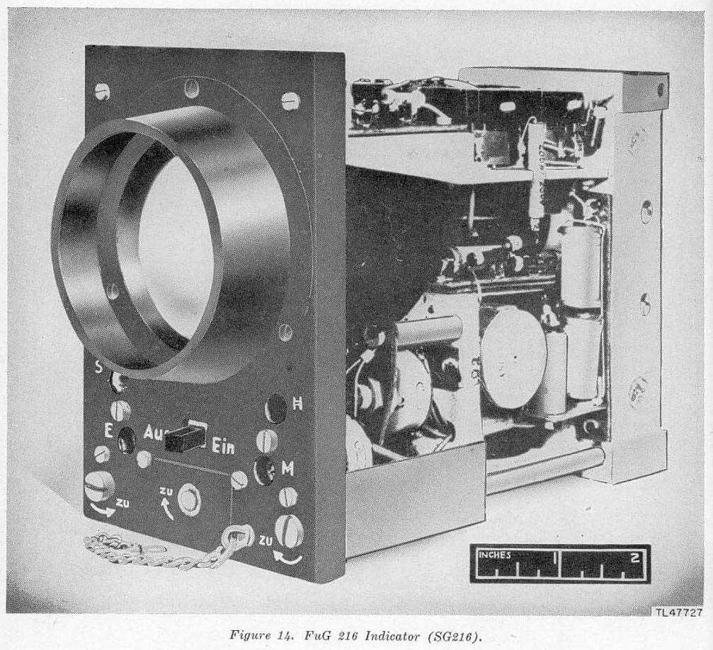 PPI of the german airborne radar FuG 216 "Neptun"